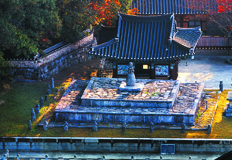 Geumsan temple